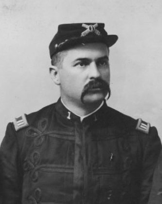 William Ansel Kinney, in the Hawaiian Military Commission of 1895.